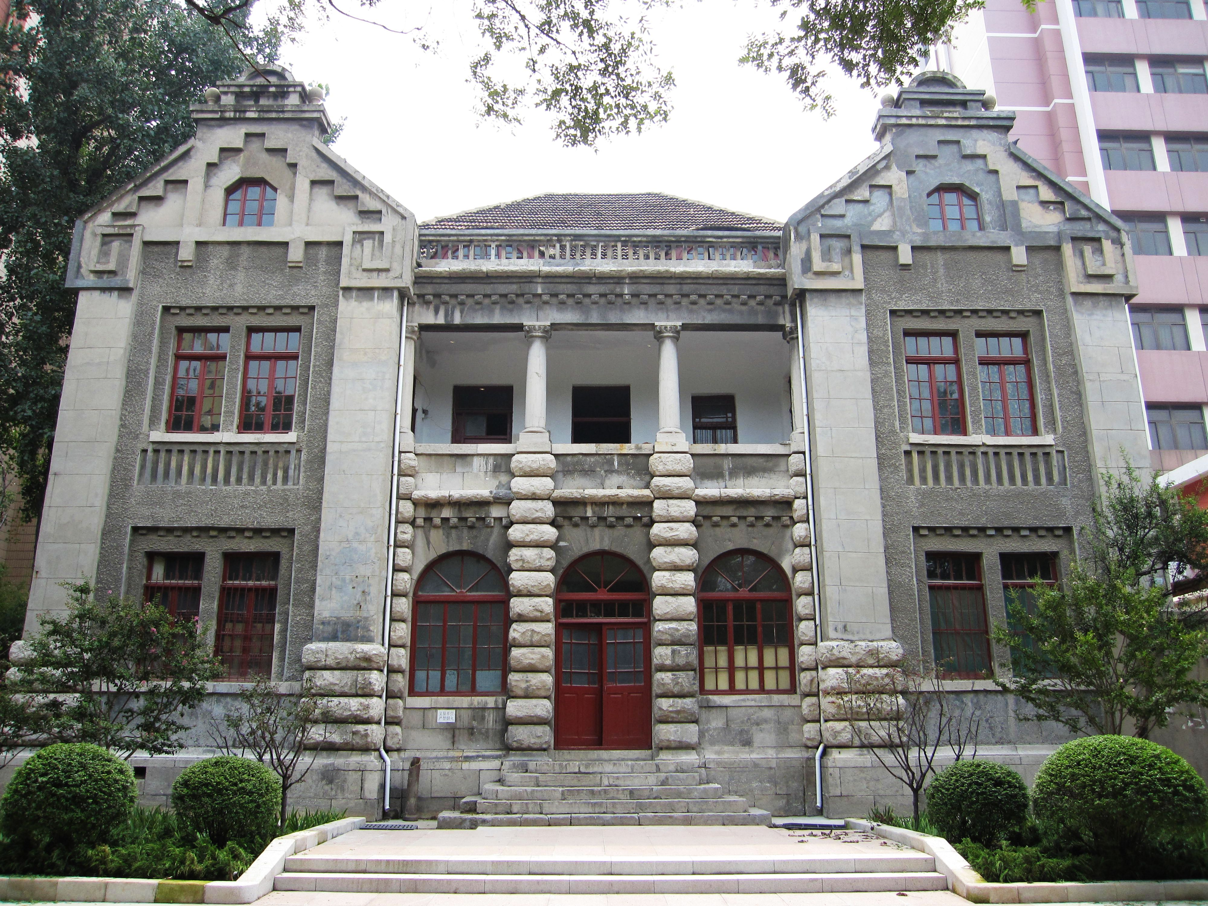 Memorial hall of Jinan Incident,on the Jingsi Road of Jinan.